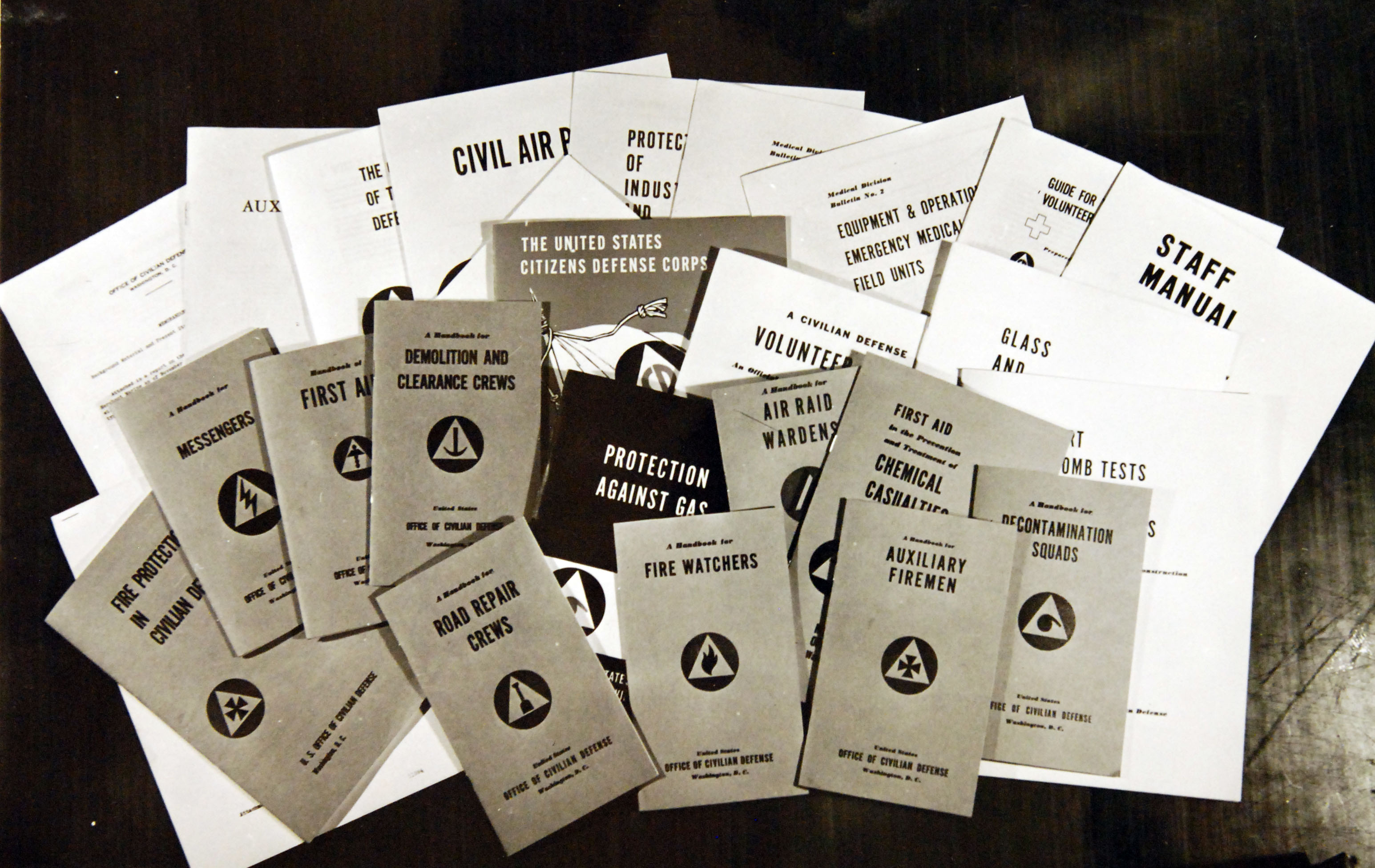 Lot-4308-18: WWII-Civilian Defense Insignia. Shown: Air Raid Protective Service: Guides for the volunteer services. Office of Emergency Management. Courtesy of the Library of Congress. (2017/05/12.